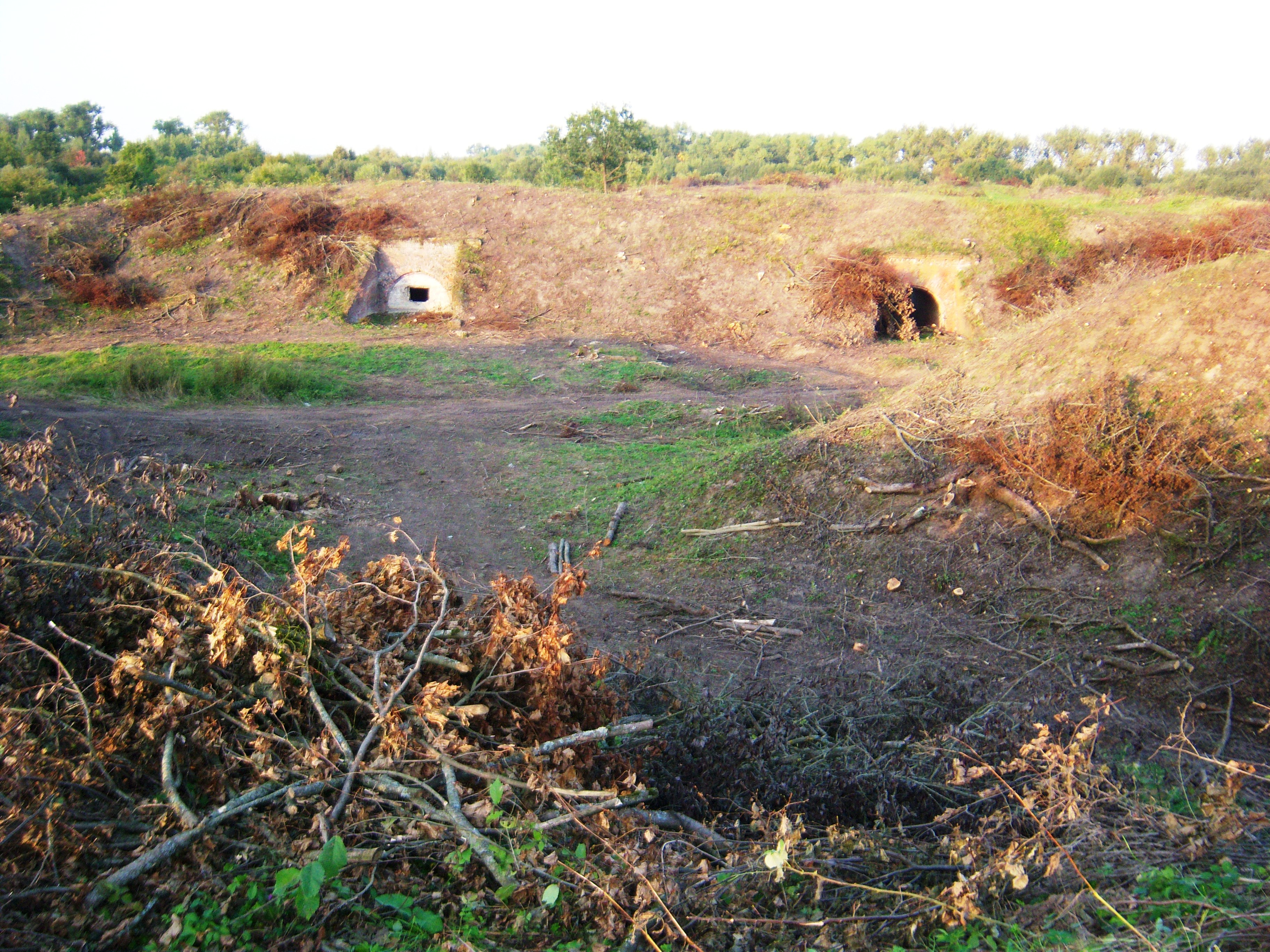 4th Fort of Kaunas Fortress in Rokai, Kaunas, Lithuania